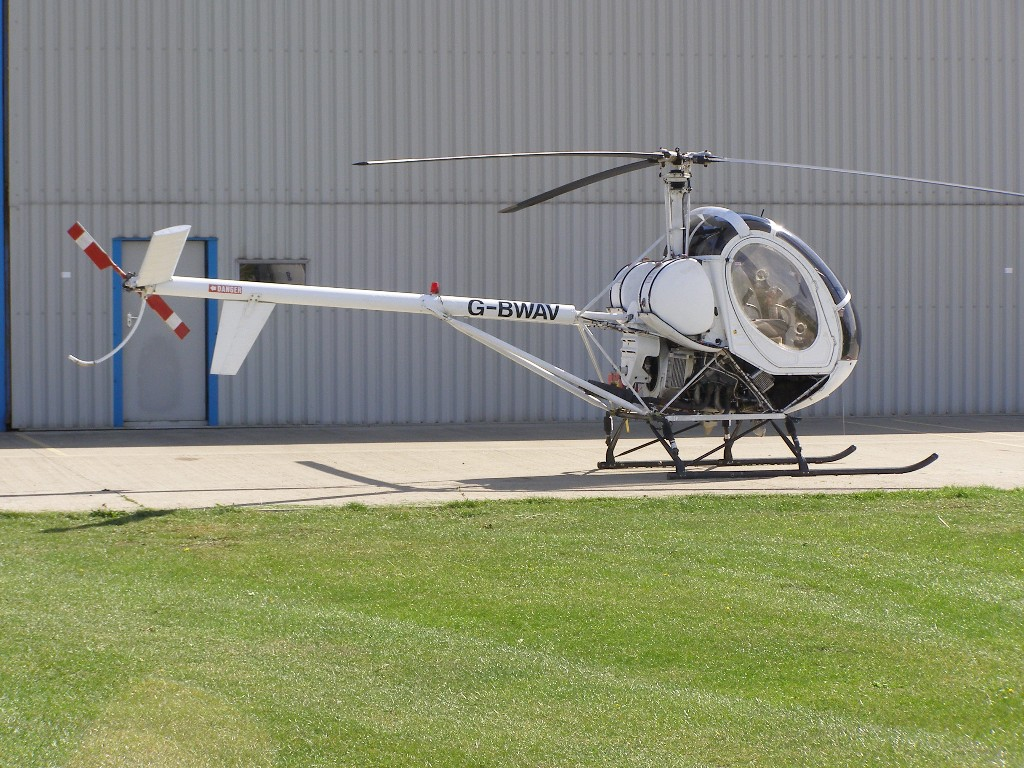 Schweizer S269C Helicopter G-BWAV at Shoreham Airport England.